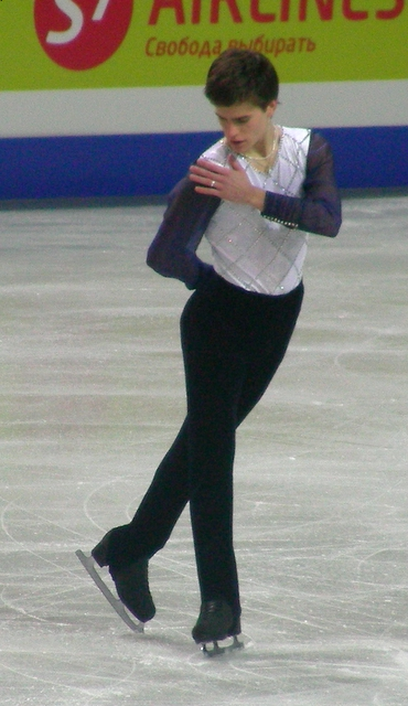 Moris Pfeifhofer on the 2007 European Figure Skating Championships in Warsaw - free skate